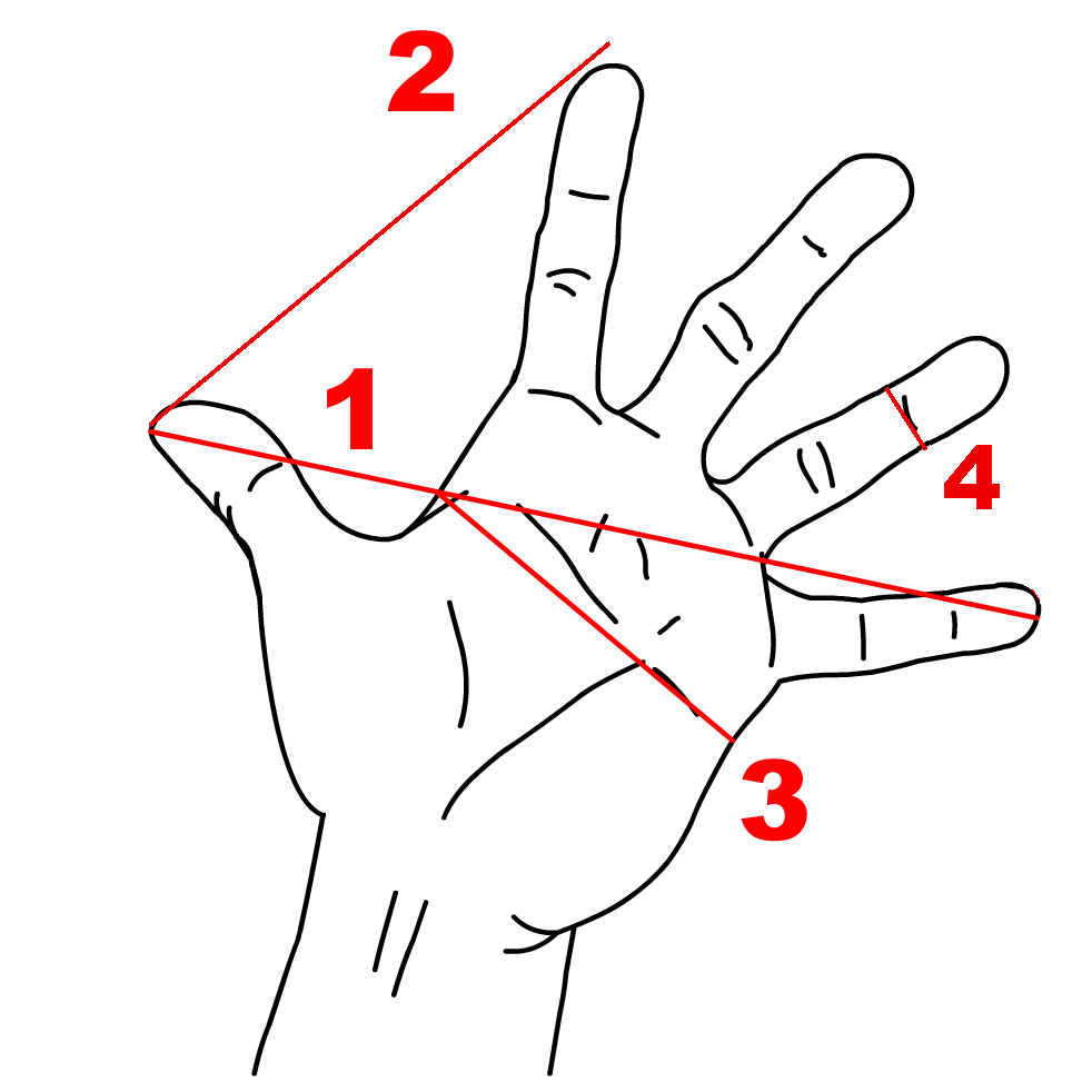 Romanian units of measure for palm. 1. Span 2. "şchioapă" 3. palm 4. finger